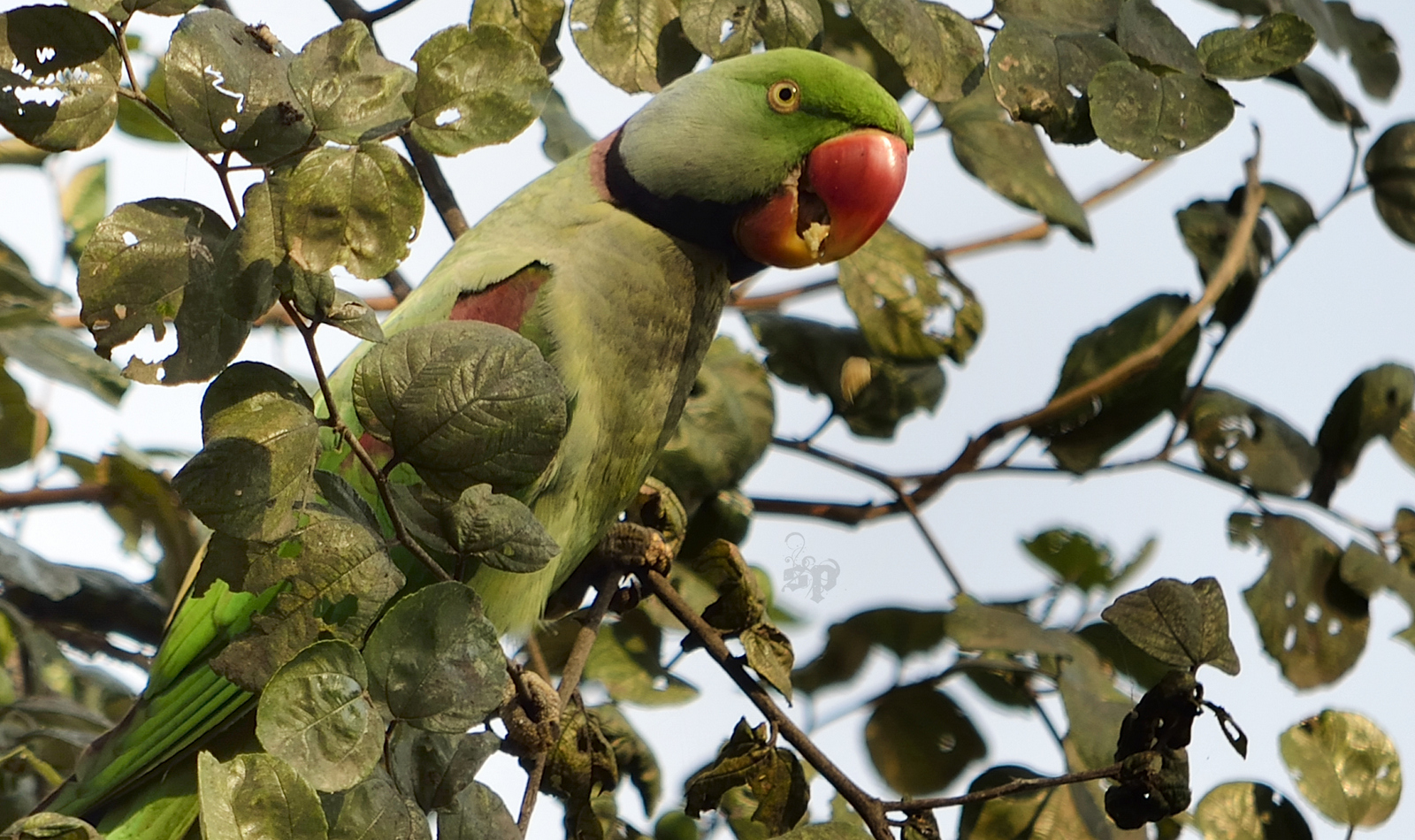 check full resolution.